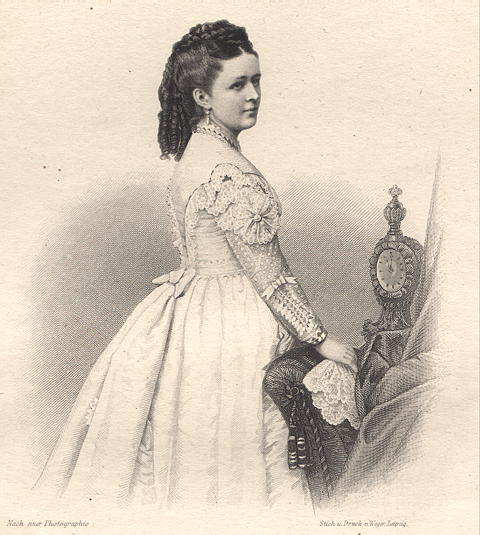 Bathildis of Anhalt-Dessau (1837-1902), princess of Schaumburg-Lippe